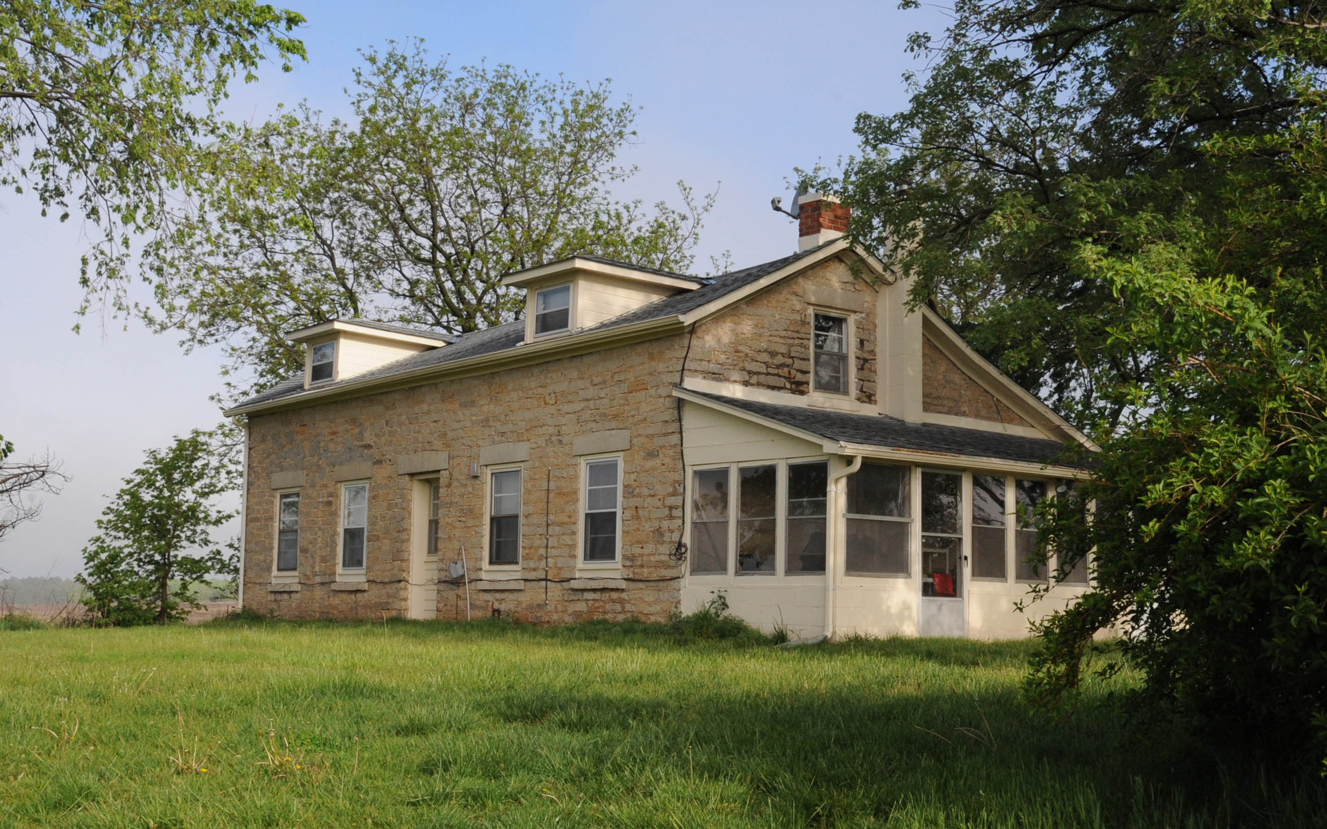 BUILT IN 1867 NEAR THE PLATTE RIVER AND STILL MAINTAINED BY DESCENDENTS OF THE ZWIEBEL FAMILY.